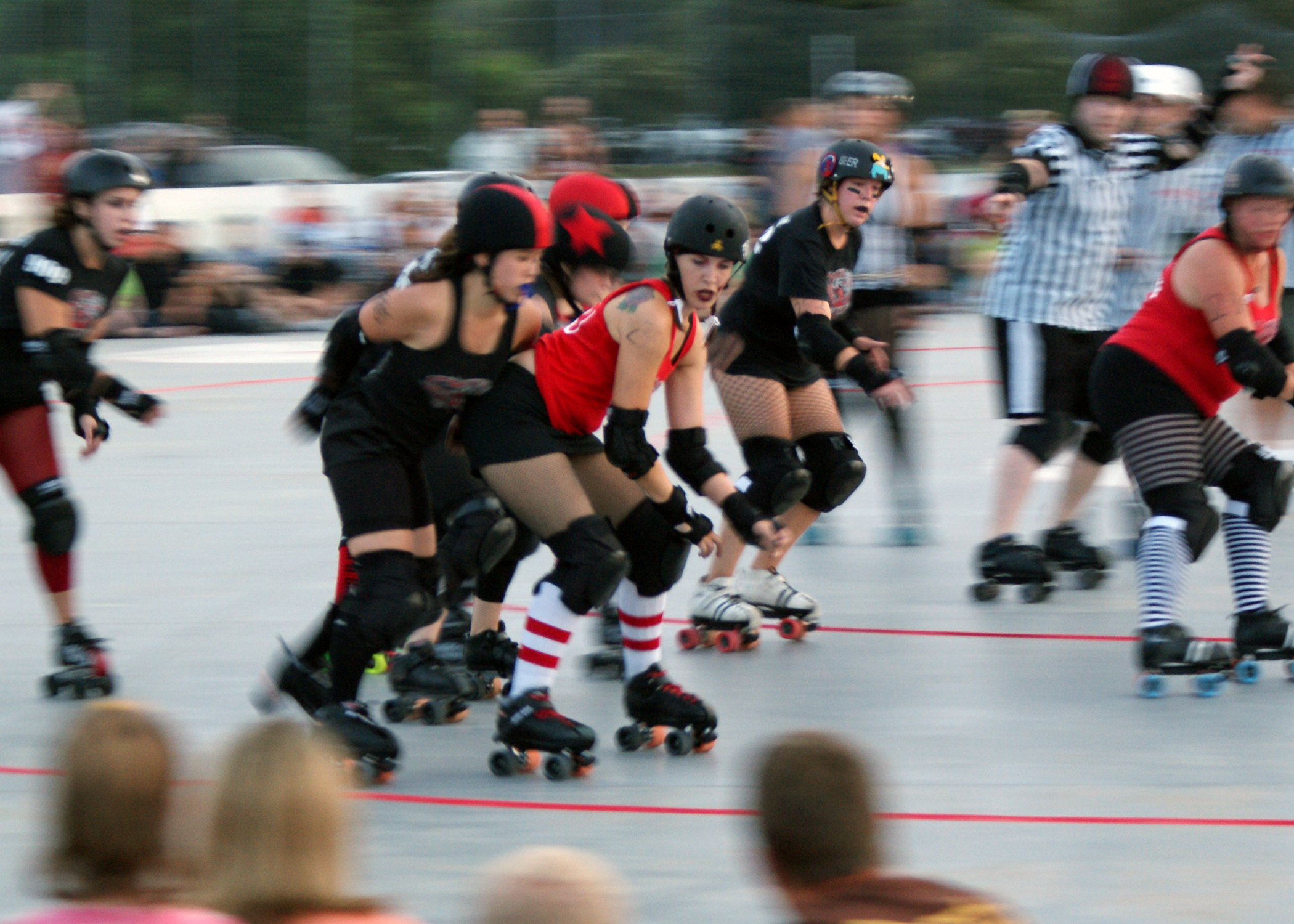 Julia "Souxsie Skoolyard" Harrison (center, red jersey), Army spouse and member of the Savannah Derby Devils, performs a "booty block" to prevent an opponent's jammer from getting by her and scoring a point during a recent roller derby bout.